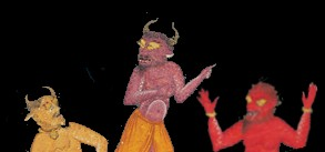 From the book Ahsan-ol-Kobar, Imam Ali and the Jinn (cropped)